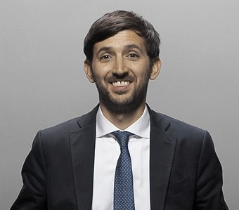 Luis J. Perez picture